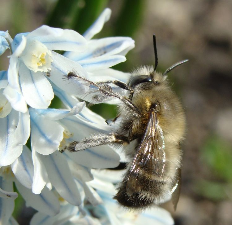 Anthophora plumipes